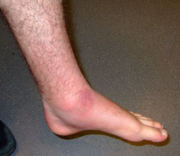 Infected Viper bite, third day without treatment